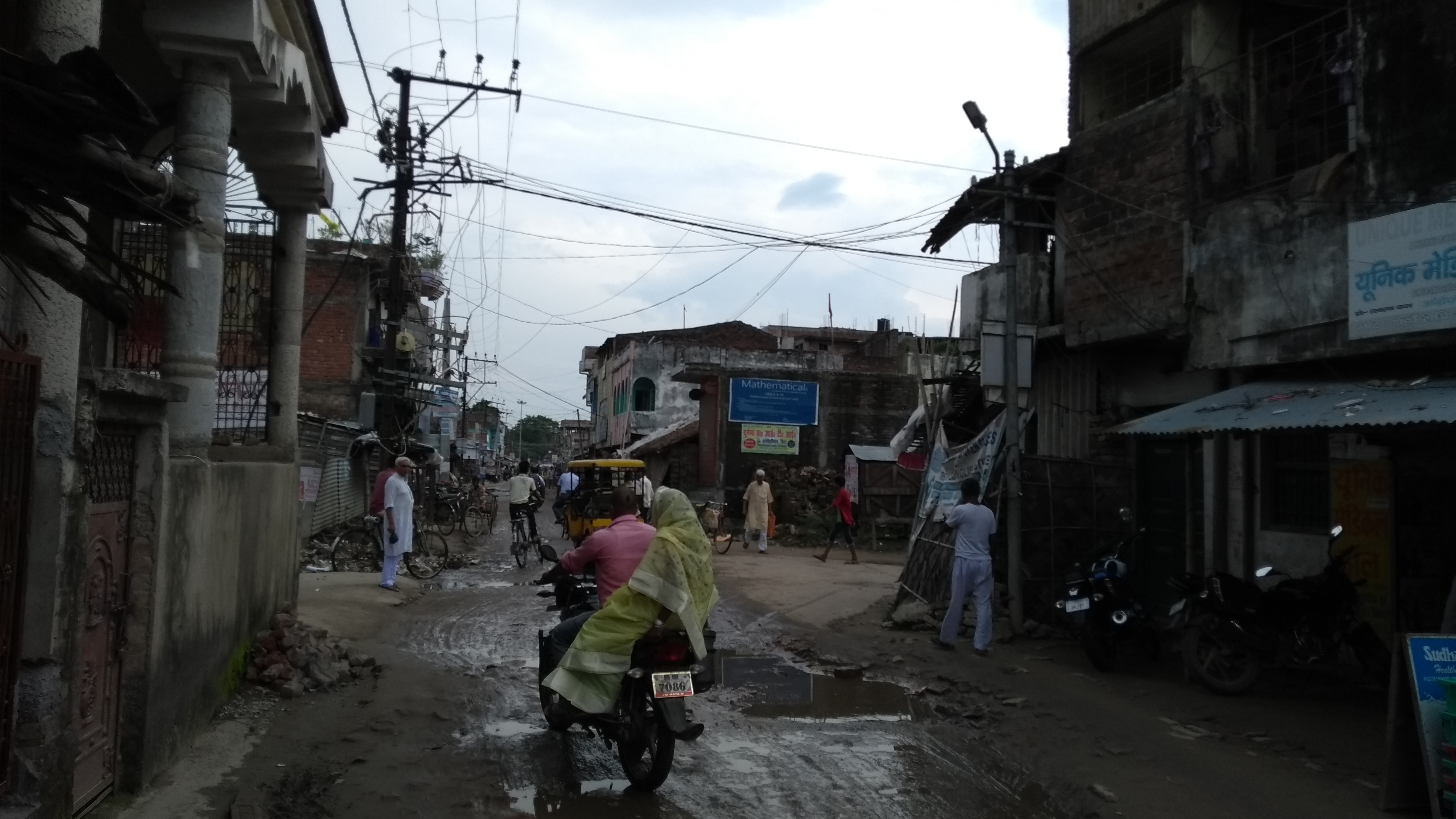 Koshi Dhala, Koshi Chowk, Saharsa, Bihar